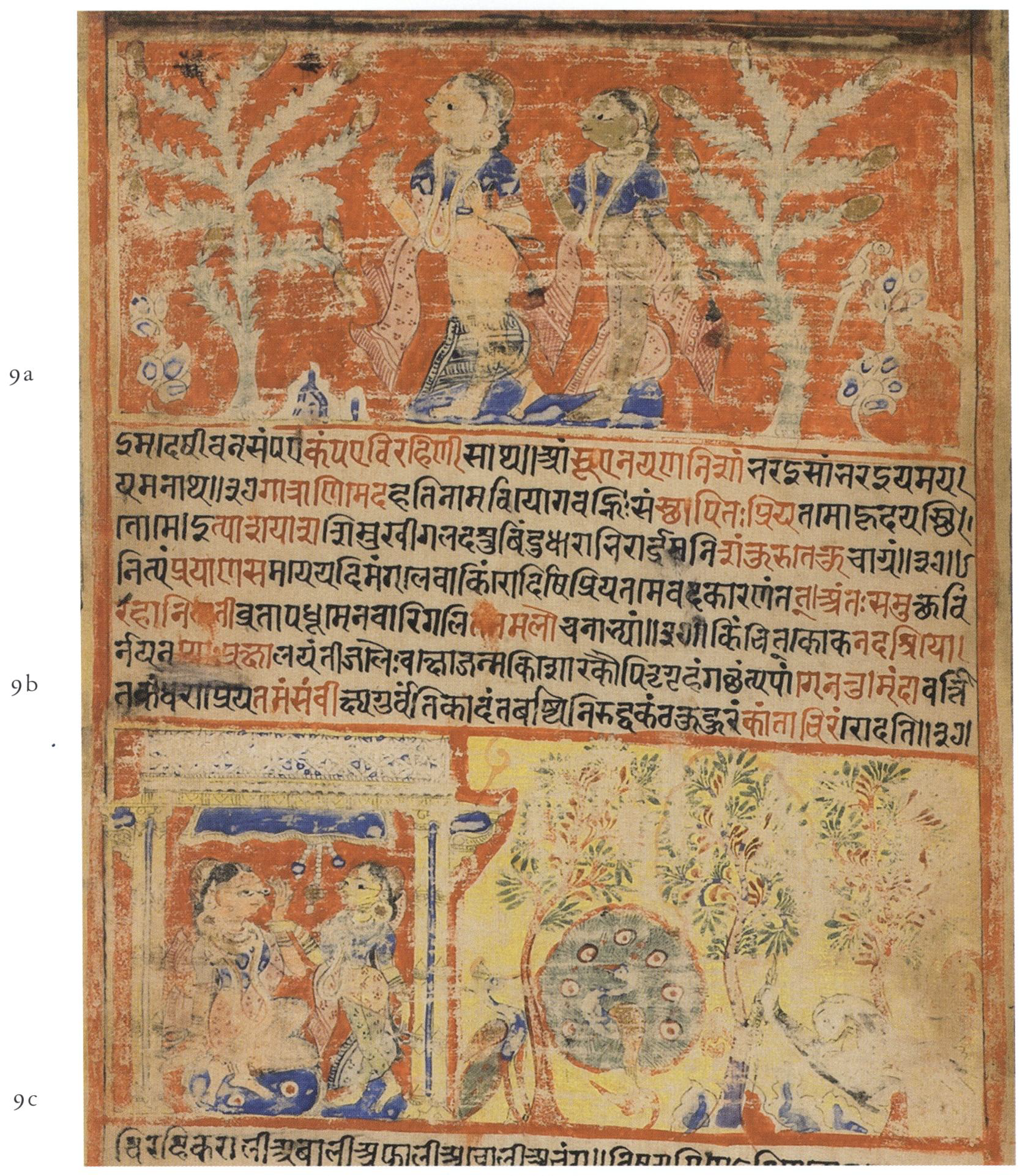 9 a to 9c, Structures of desire, Vasanta Vilasa, 1451 CE